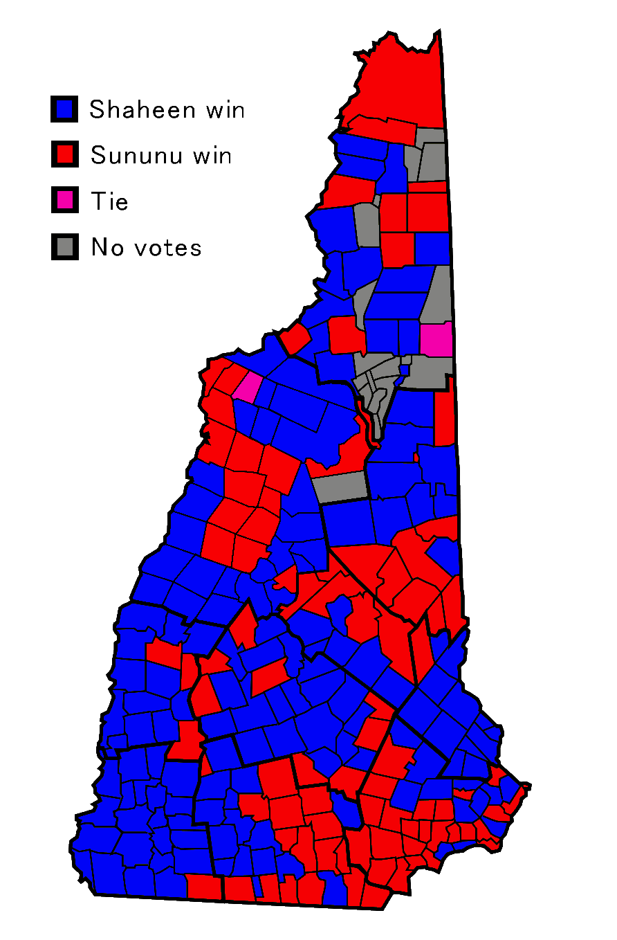 Map detailing the winner of the 2008 Senate race in New Hampshire by municipality.